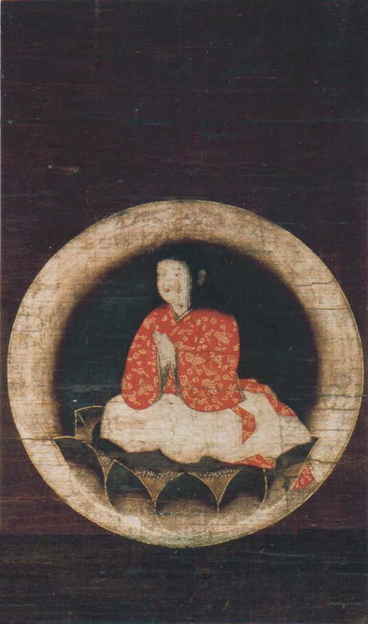 Chigo Daishi (Kobo Daishi as a small child), Korinji, Imabari, Ehime, Japan